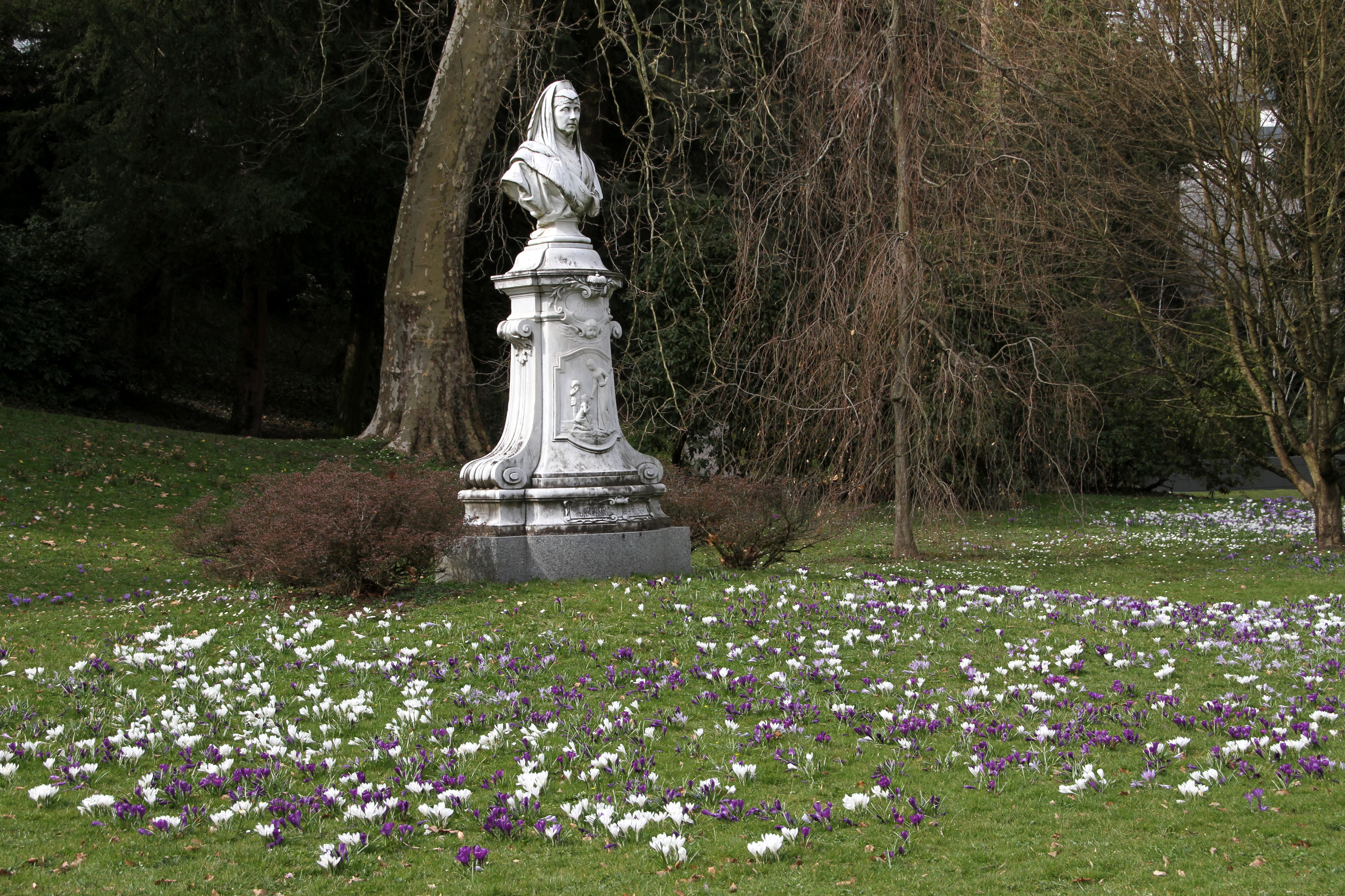 Bust of the Empress Augusta (1811-1890) by Joseph von Kopf (1827-1903) in the Lichtentaler Allee in Baden-Baden.